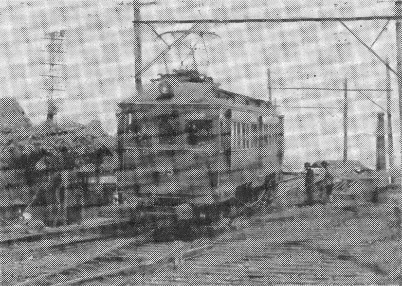 Hankyu Railway 90 Series EMU #95 on the Kami-Tsutui Line